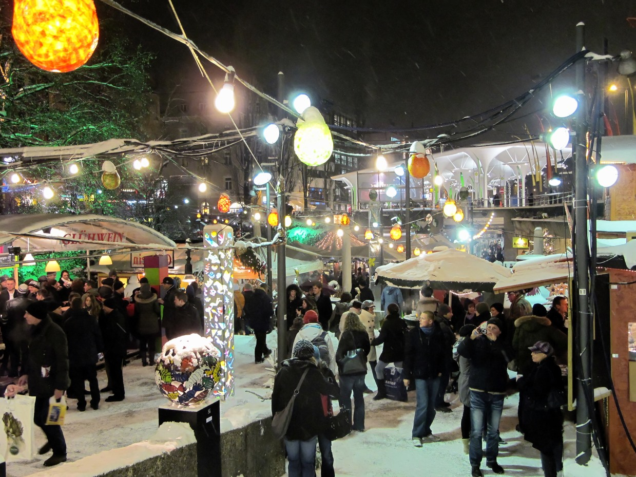 Munich, urban district Schwabing, Christmas market at "Münchner Freiheit